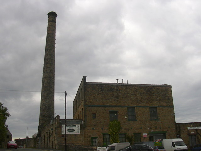 Oakmount Mill, Wiseman Street